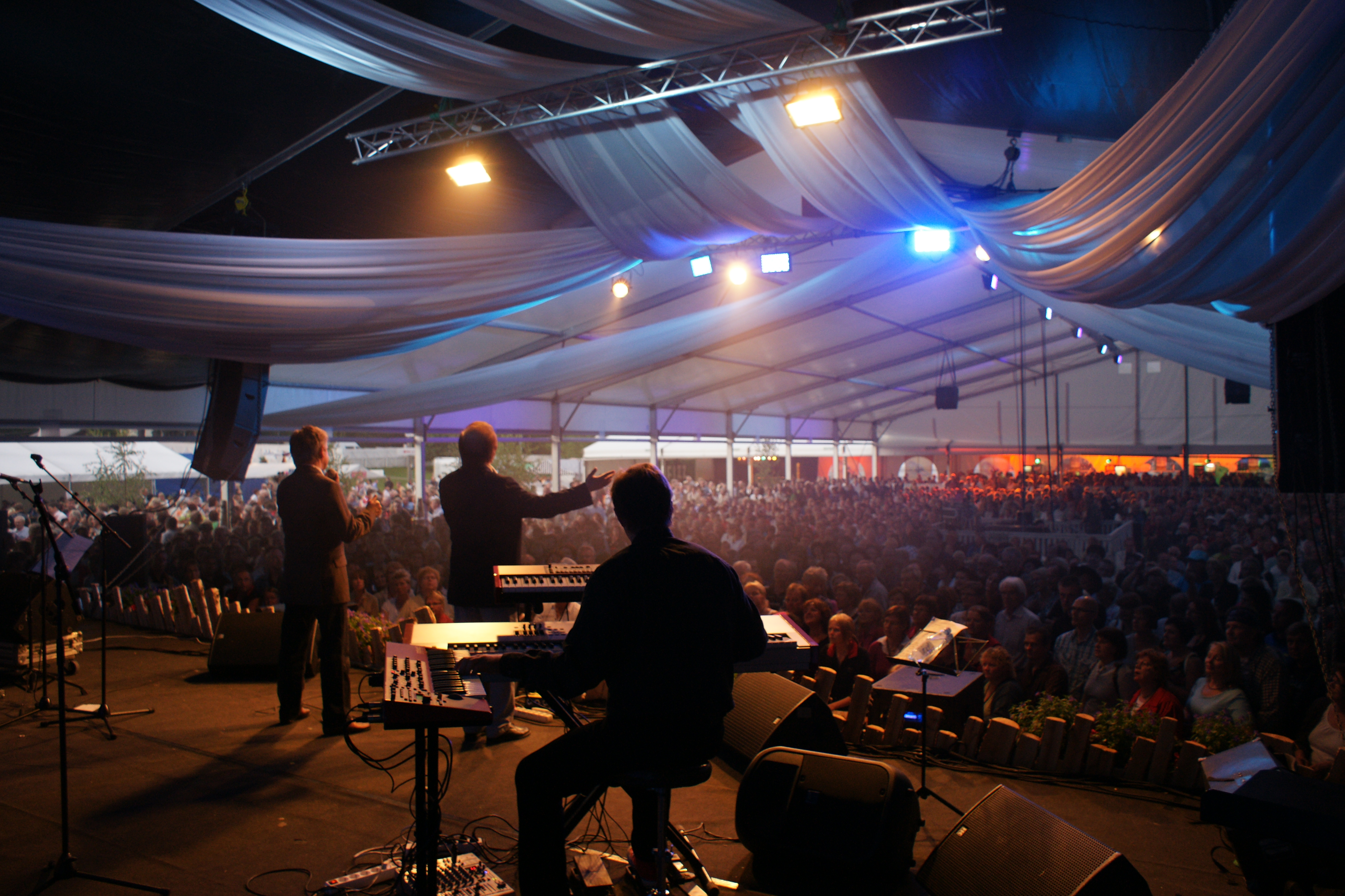 Singer brothers Matti and Teppo in IskelmäNiityt musicfestival in Kiuruvesi year 2009